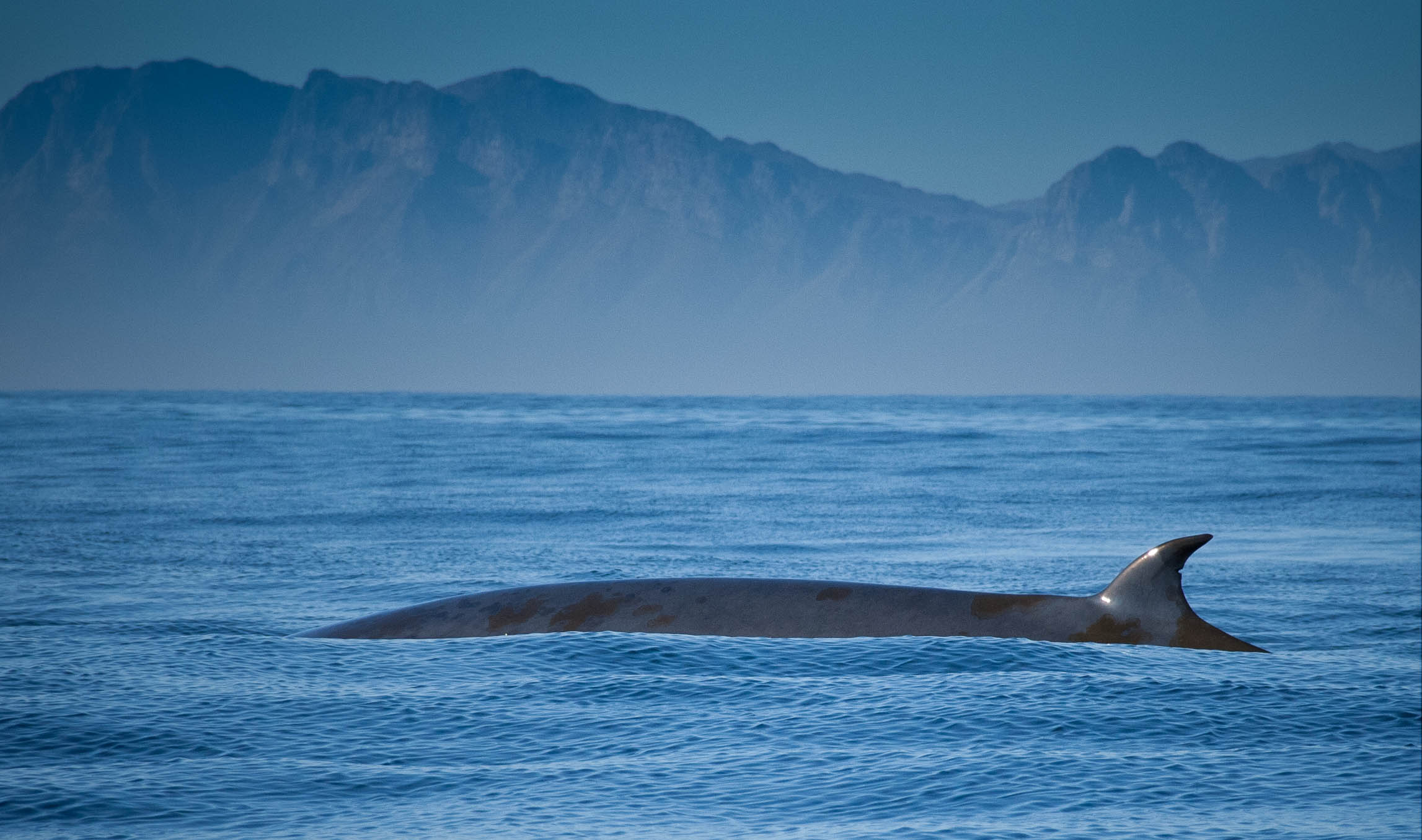 A Bryde's whale (Balaenoptera brydei/edeni) in False Bay, South Africa.